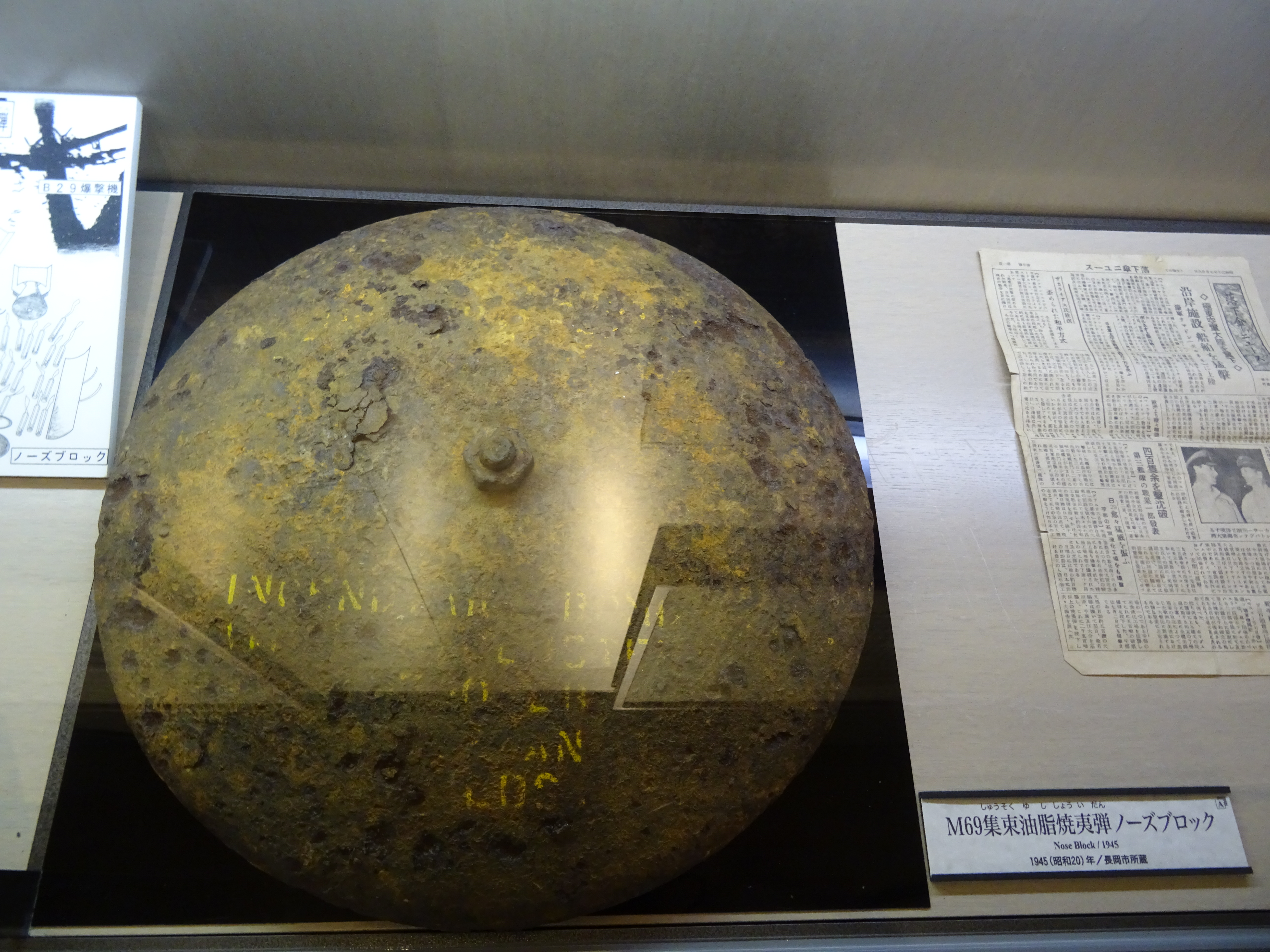 Nose block of M-69 incendiary cluster bomb. It was used in Bombing of Nagaoka in 1945. Exhibit at Niigata Prefectural Museum of History.